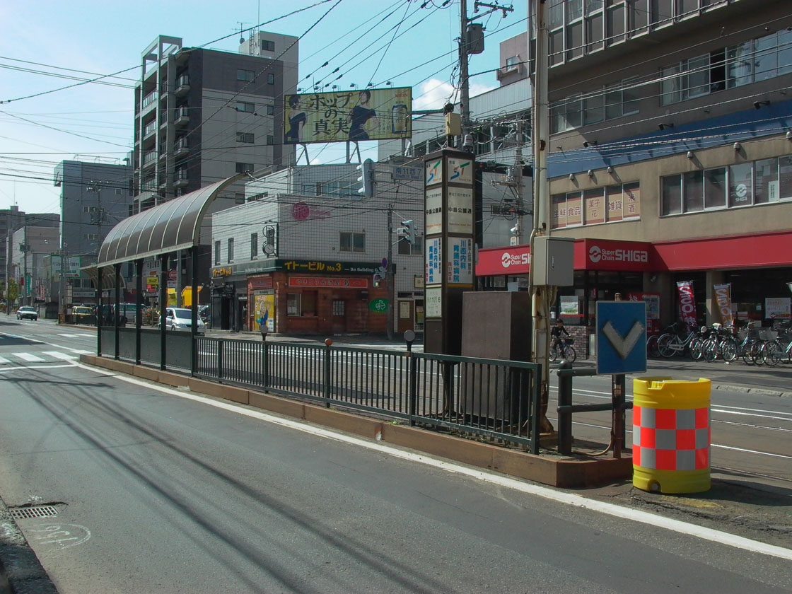 Nakajima Koen Dori station Sapporo, Hokkaido, Japan